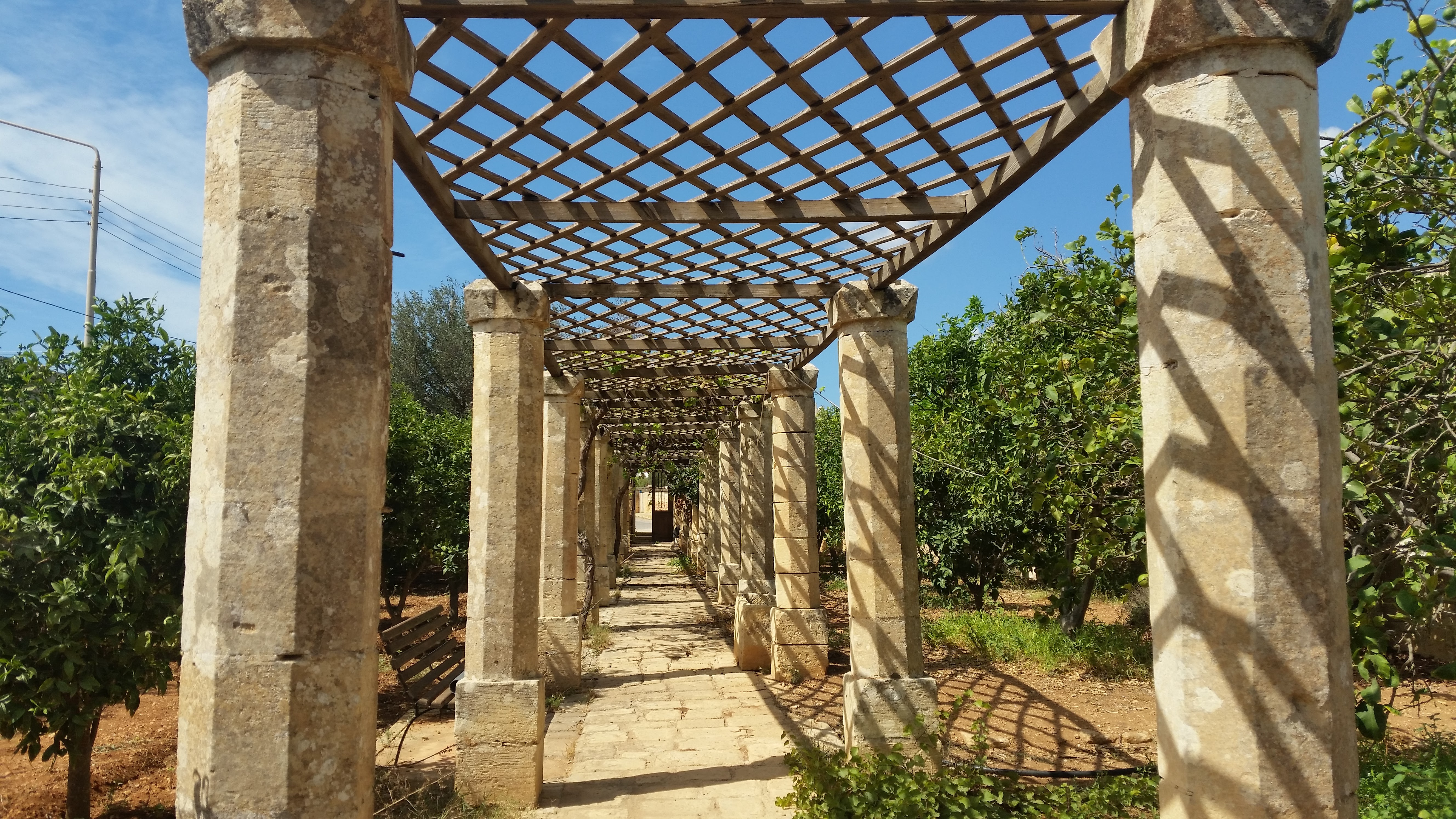 This media is about Maltese cultural property with inventory number 01209.